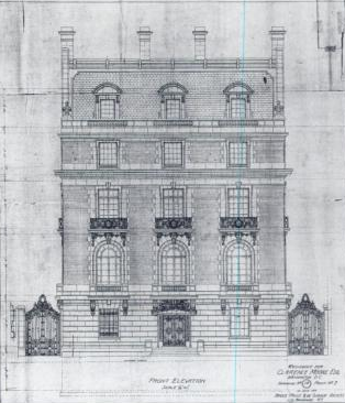 12. Historic American Buildings Survey Commission of Fine Arts Staff, 1971 Photocopy of Architects' Drawing, 1906 Filed with Permit #825 FRONT ELEVATION